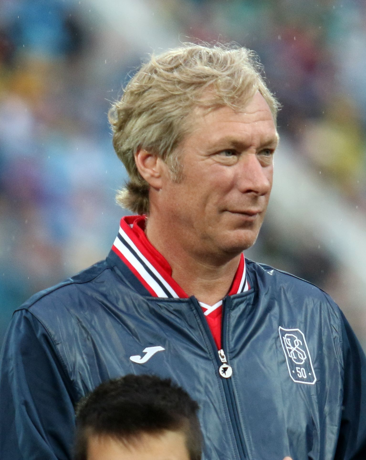 Oleksiy Oleksandrovych Mykhaylychenko (born March 30, 1963) is a Ukrainian football coach and former professional football player. He is the Distinguished Master of Sports of USSR and the Distinguished Coach of Ukraine.